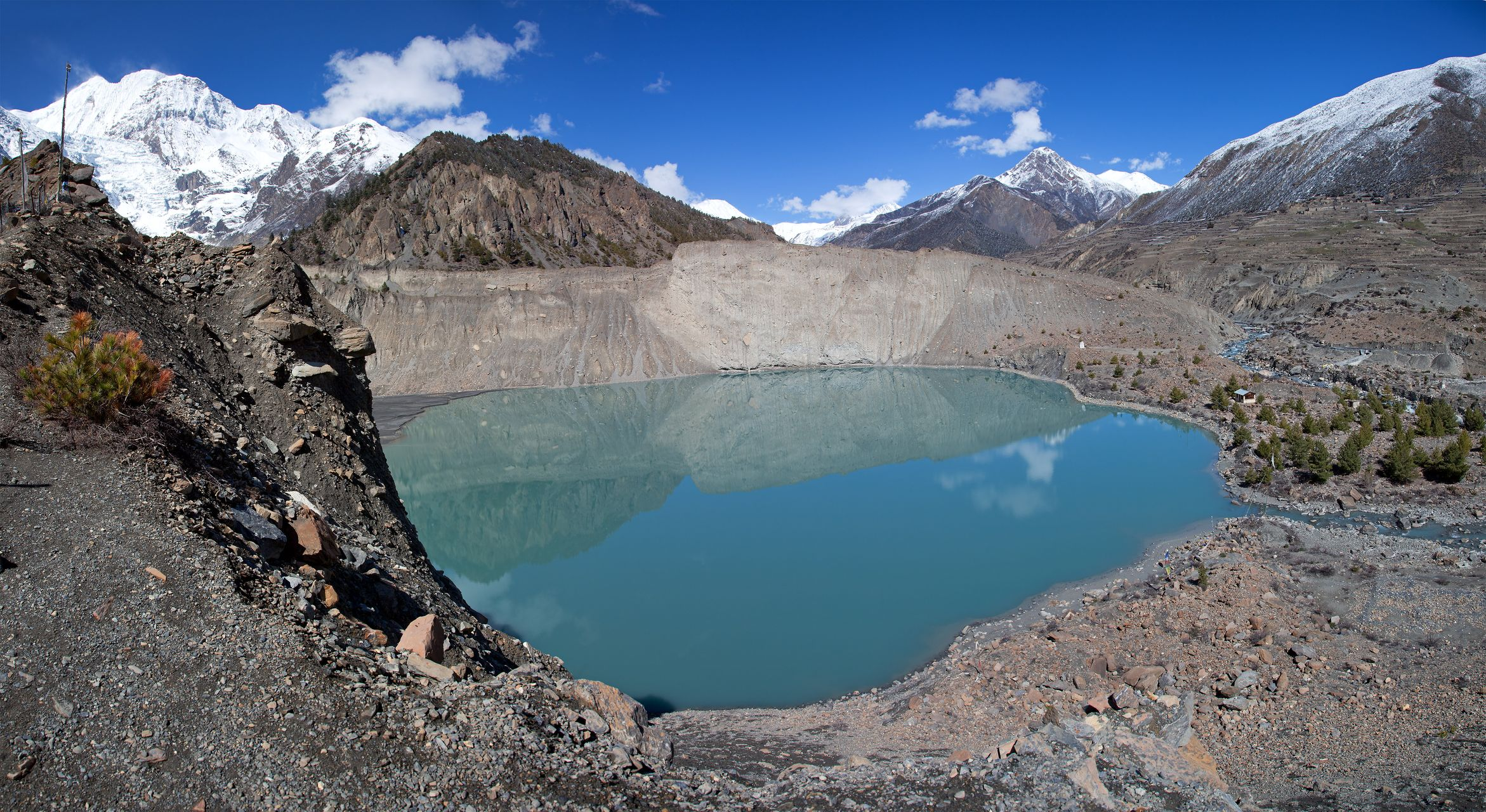 Lake Gangapurna near Manang, Nepal